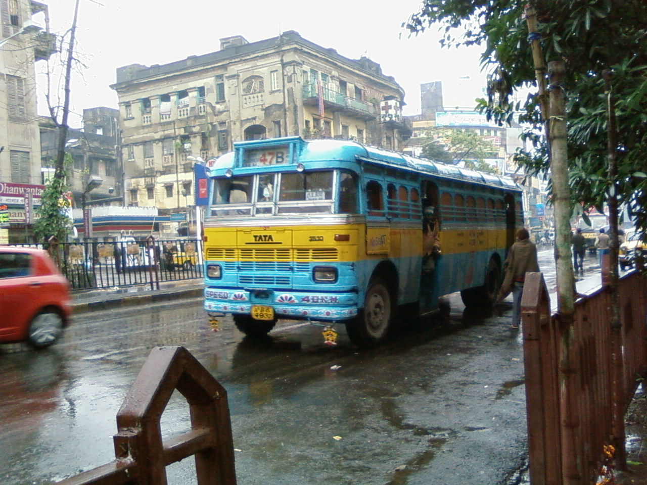 rain soaked